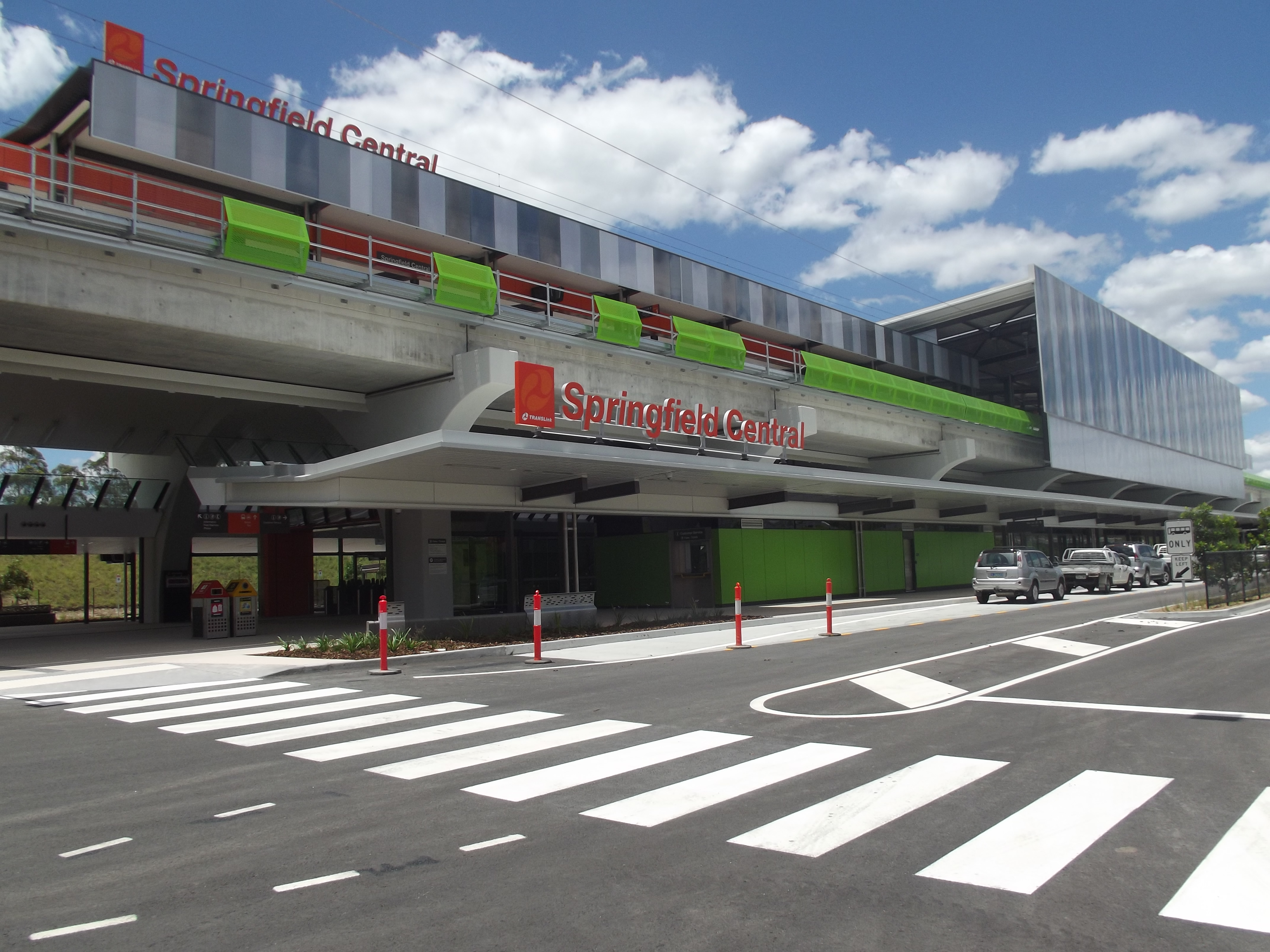 The brand new Springfield Central station, and the terminus of the new railway line to Springfield in Brisbane.